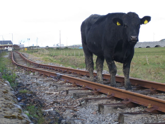 Tralee & Blennerville Steam Railway According to the tags on its ears this is No. 0286, but I don't think it is part of the regular steam train rolling "stock"!! Fortunately, for all parties concerned, the trains were not running on that day.